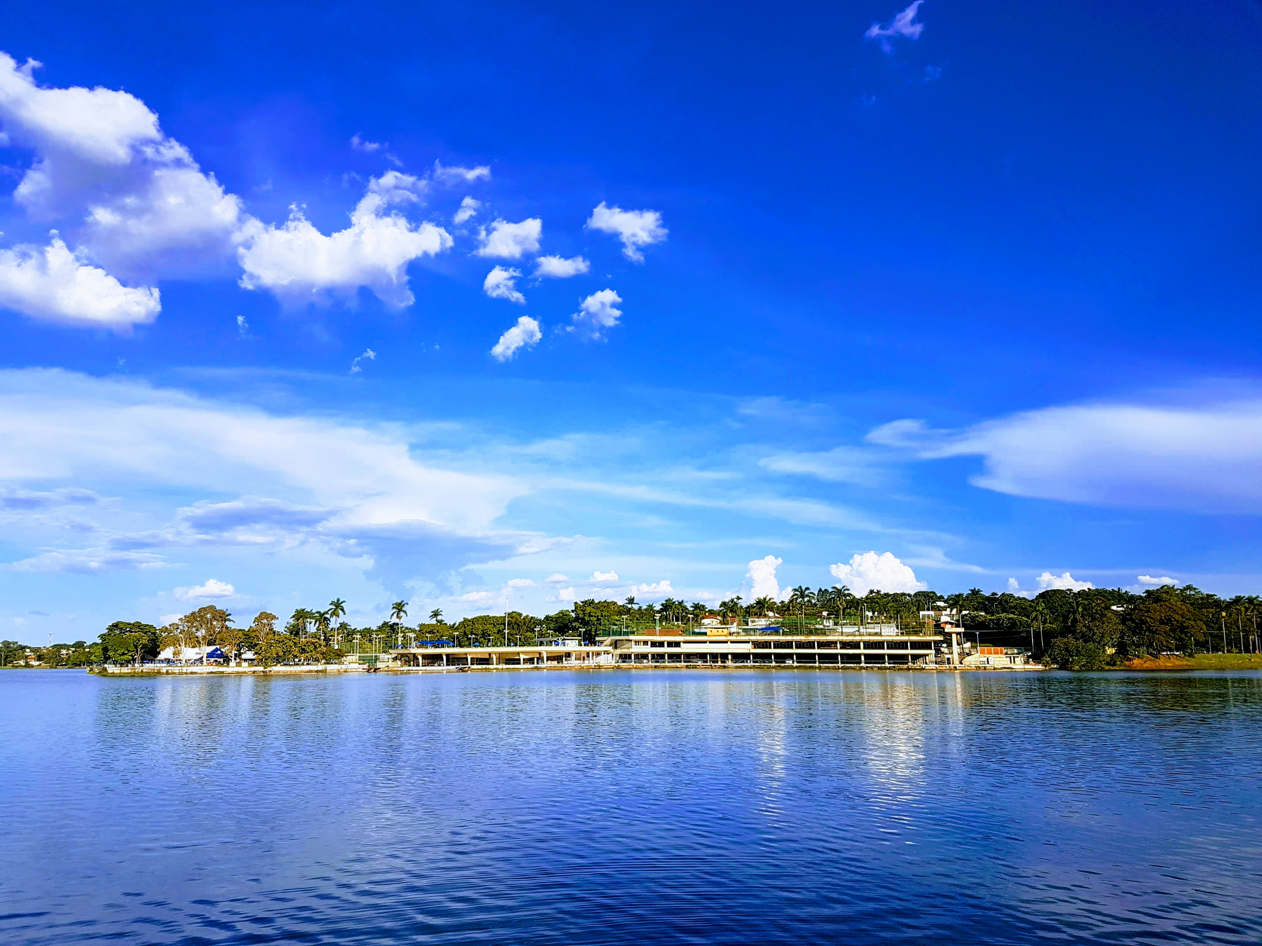 Yacht Tennis Club and Pampulha reservoir in Belo Horizonte, Minas Gerais, Brazil